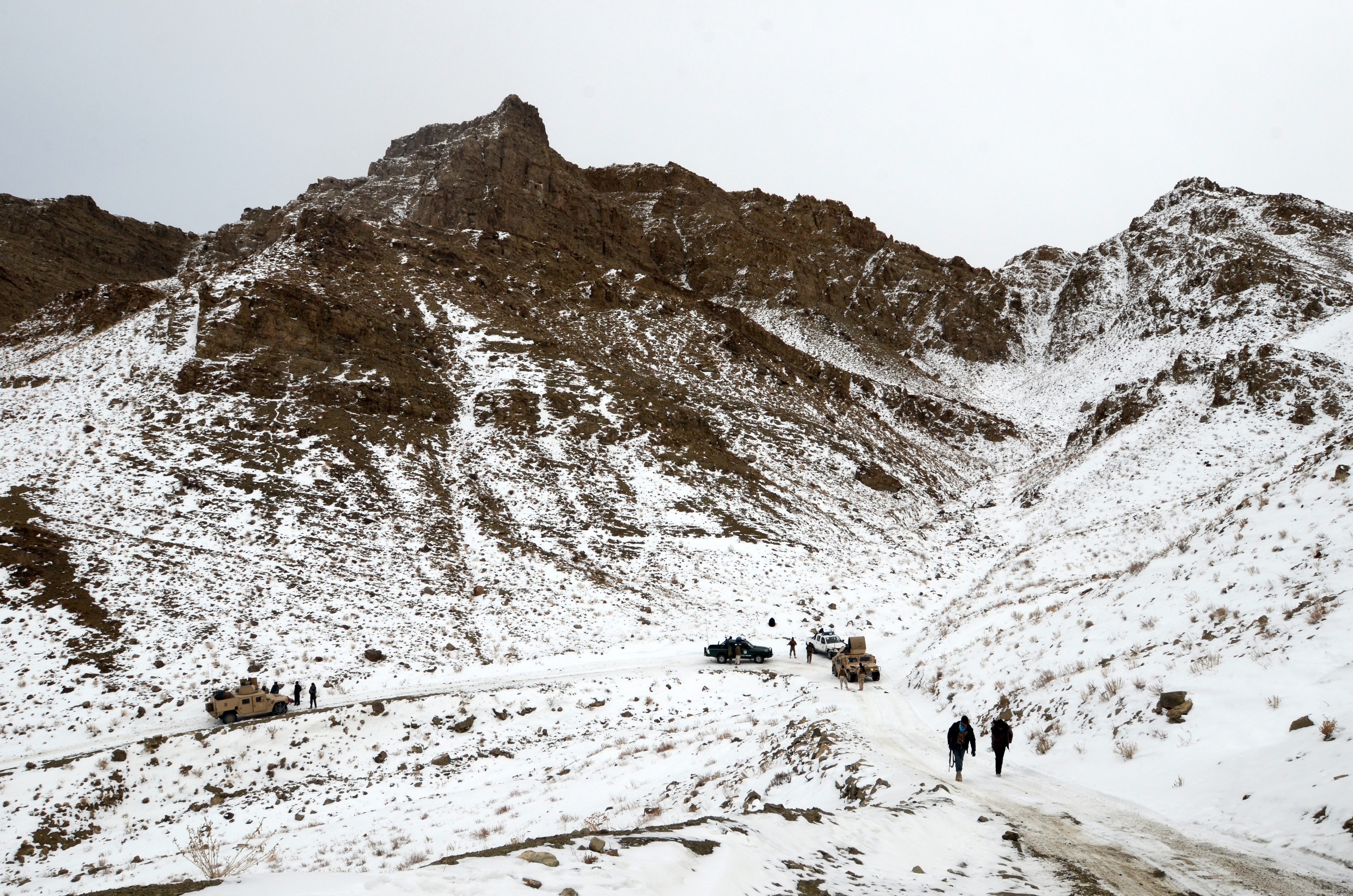 Afghan Local Police and other Afghan National Security Forces drive up a mountain pass in Omna district, Paktika province, Afghanistan, Jan. 12, 2014. The ANSF were headed to do a presence patrol and conduct a security shura in Spina village.